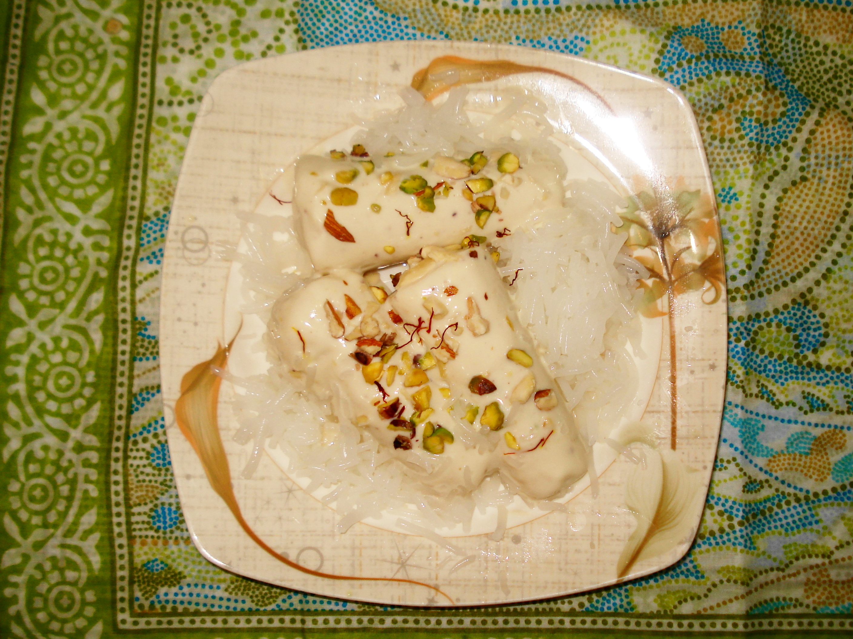 Khulfi